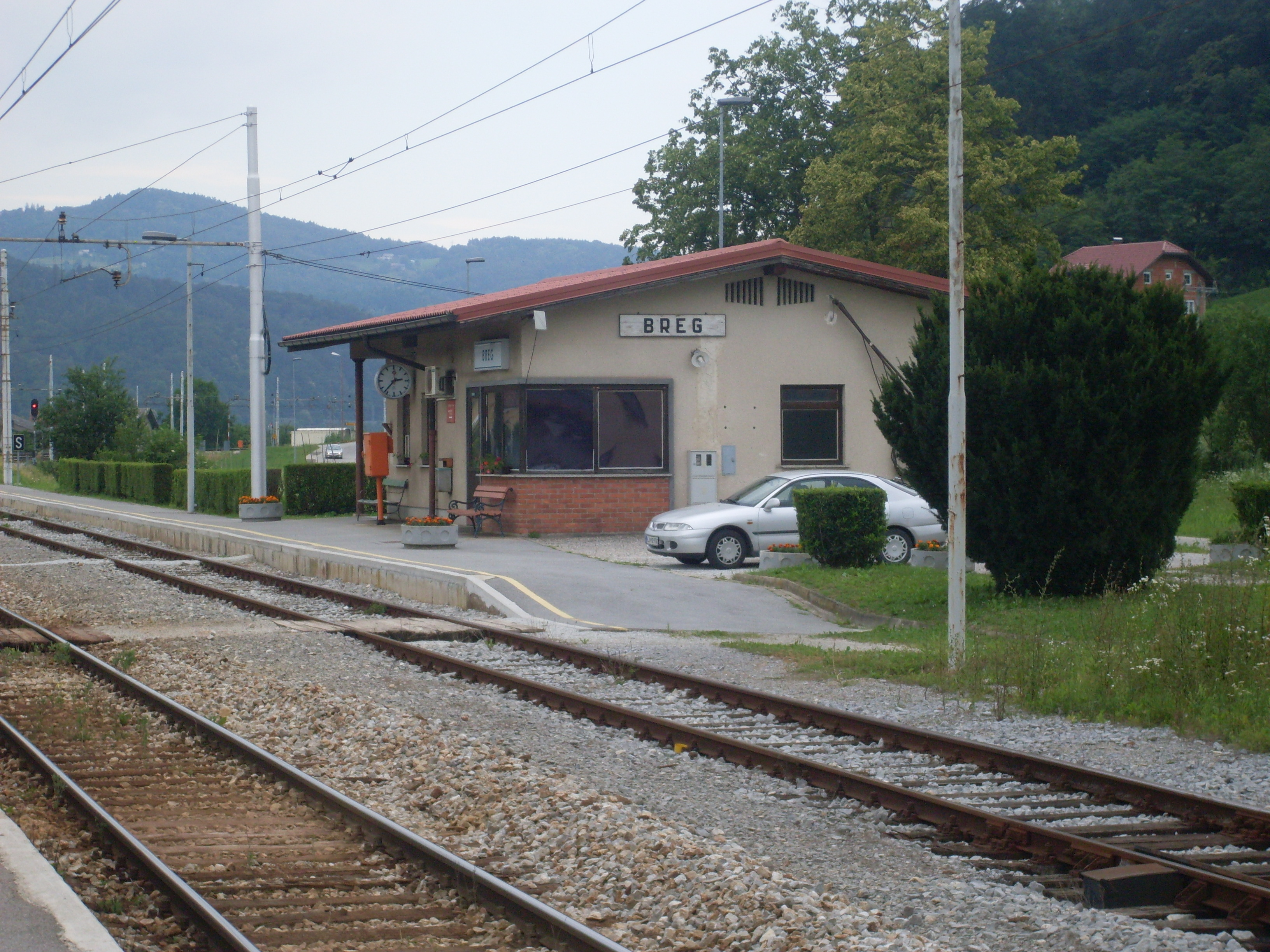 Breg train station, actually located in Šentjur na Polju